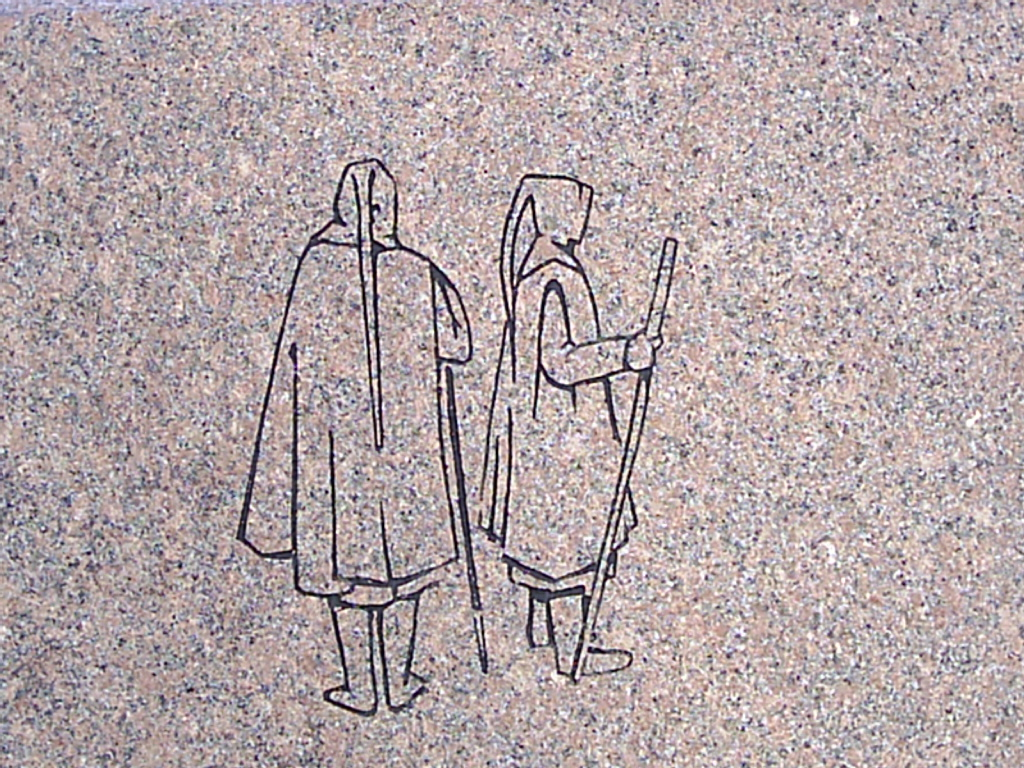 Drawing of the Bockstensman from the Finnish artist Karry Kivijärvi on a memorial stone in Varberg, Sweden.